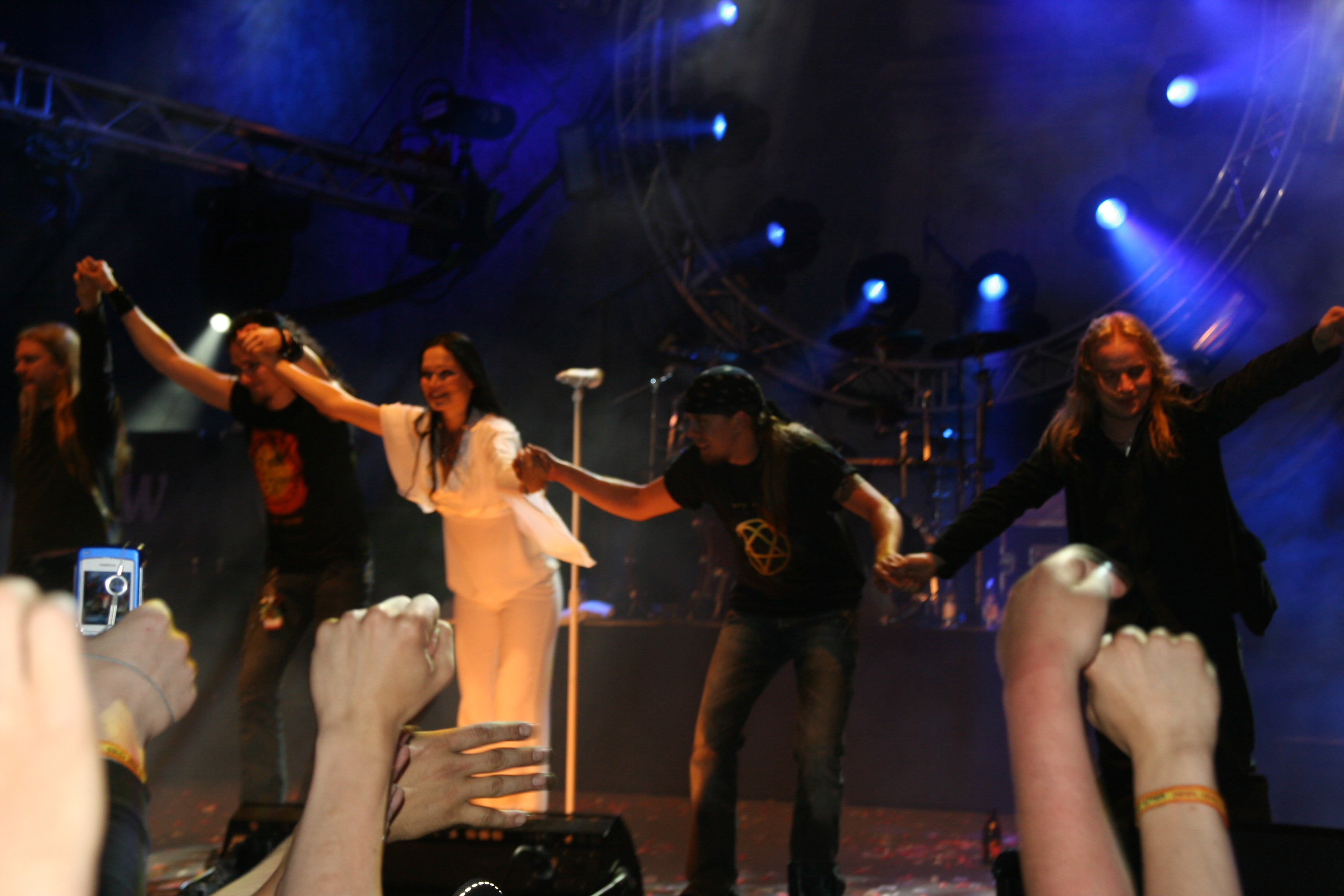 Nightwish at Himos-Festival in Himos (Marco, Tuomas, Tarja, Jukka, Erno)